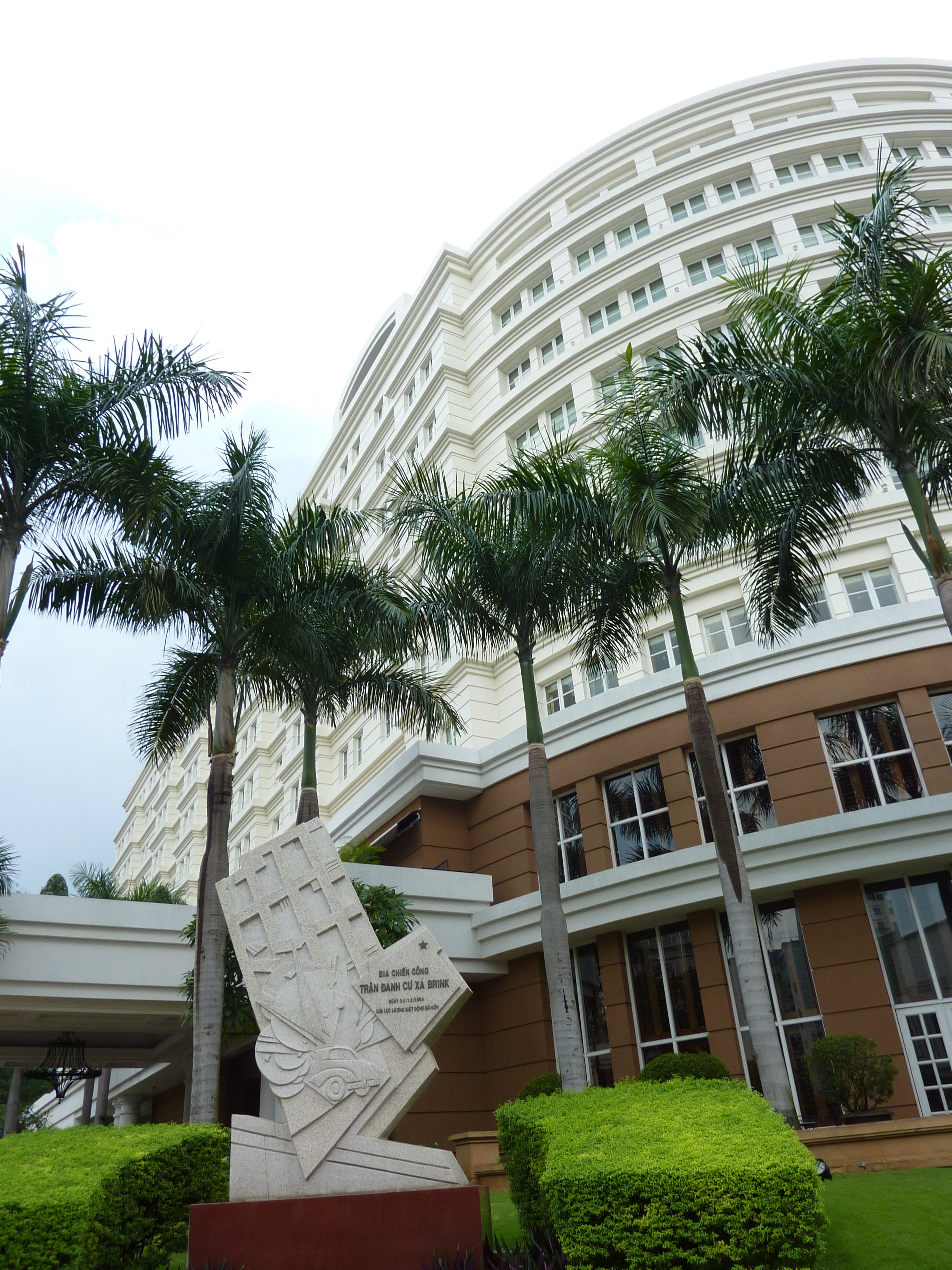 Hotel Brinks Memorial at the side of the contemporary Park Hyatt Hotel in Ho Chi Minh City